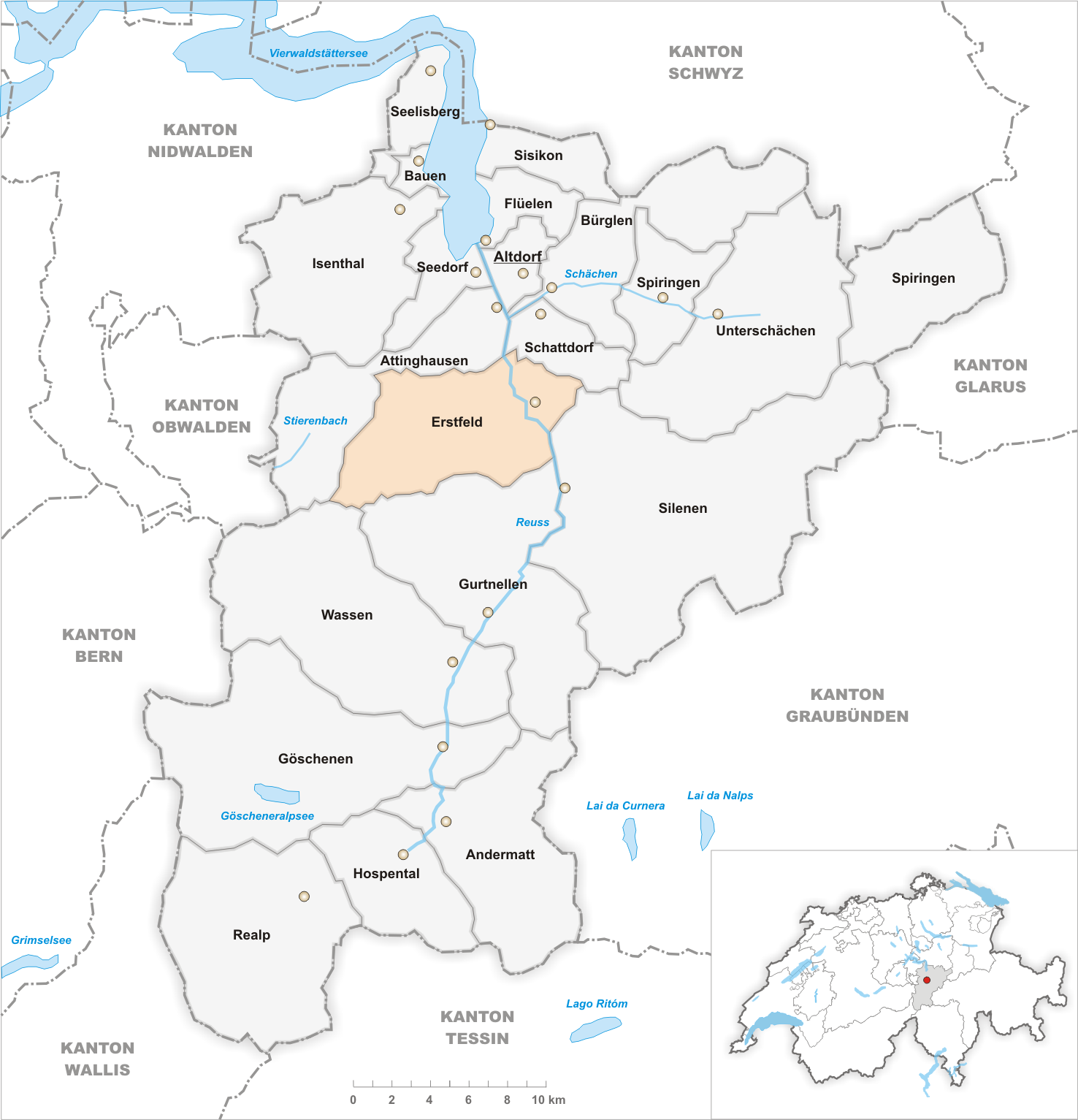 Municipality Erstfeld